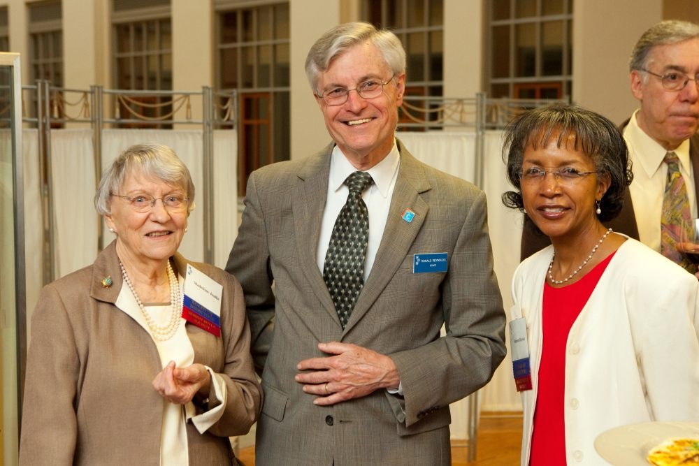 Photograph of Madeleine M. Joullié, Ron Reynolds and Sharon Haynie at Heritage Day, 8 April 2010, Chemical Heritage Foundation, Philadelphia, PA, USA.